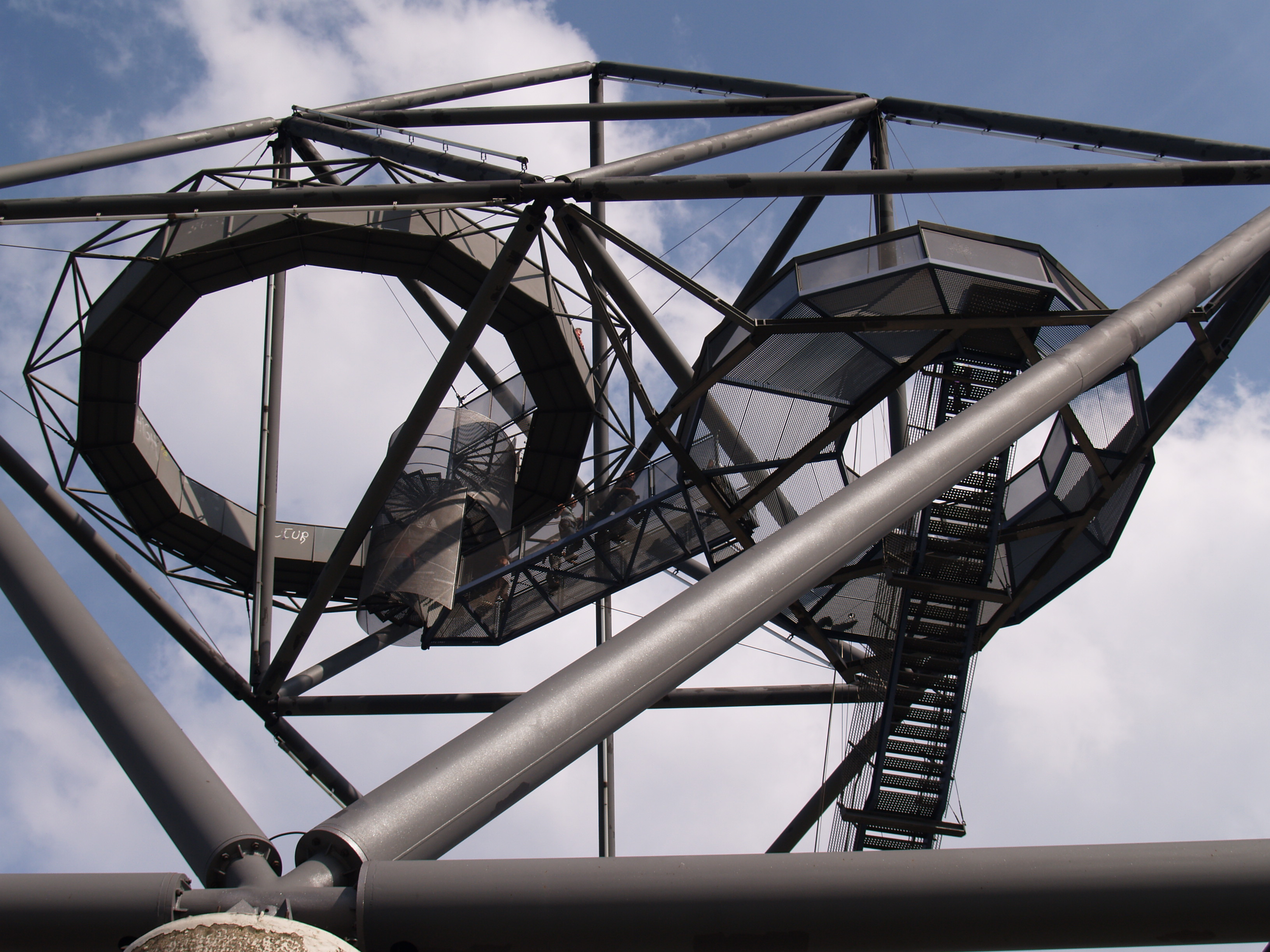 View trough the grid-construction of the Tetraeder in Bottrop, Germany